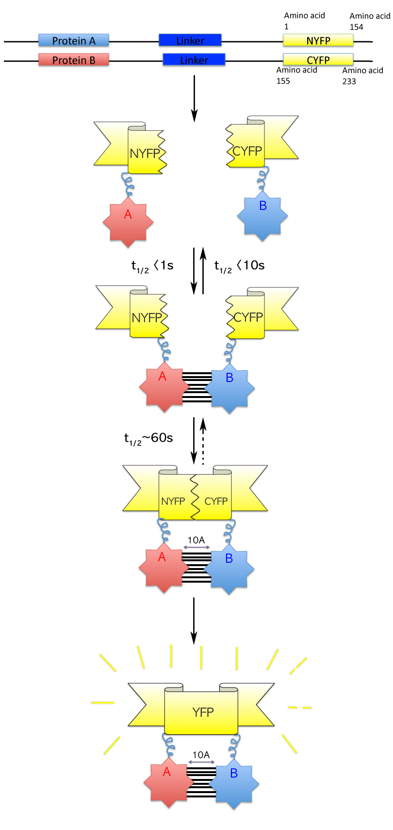 dynamic equilibrium of BiFC